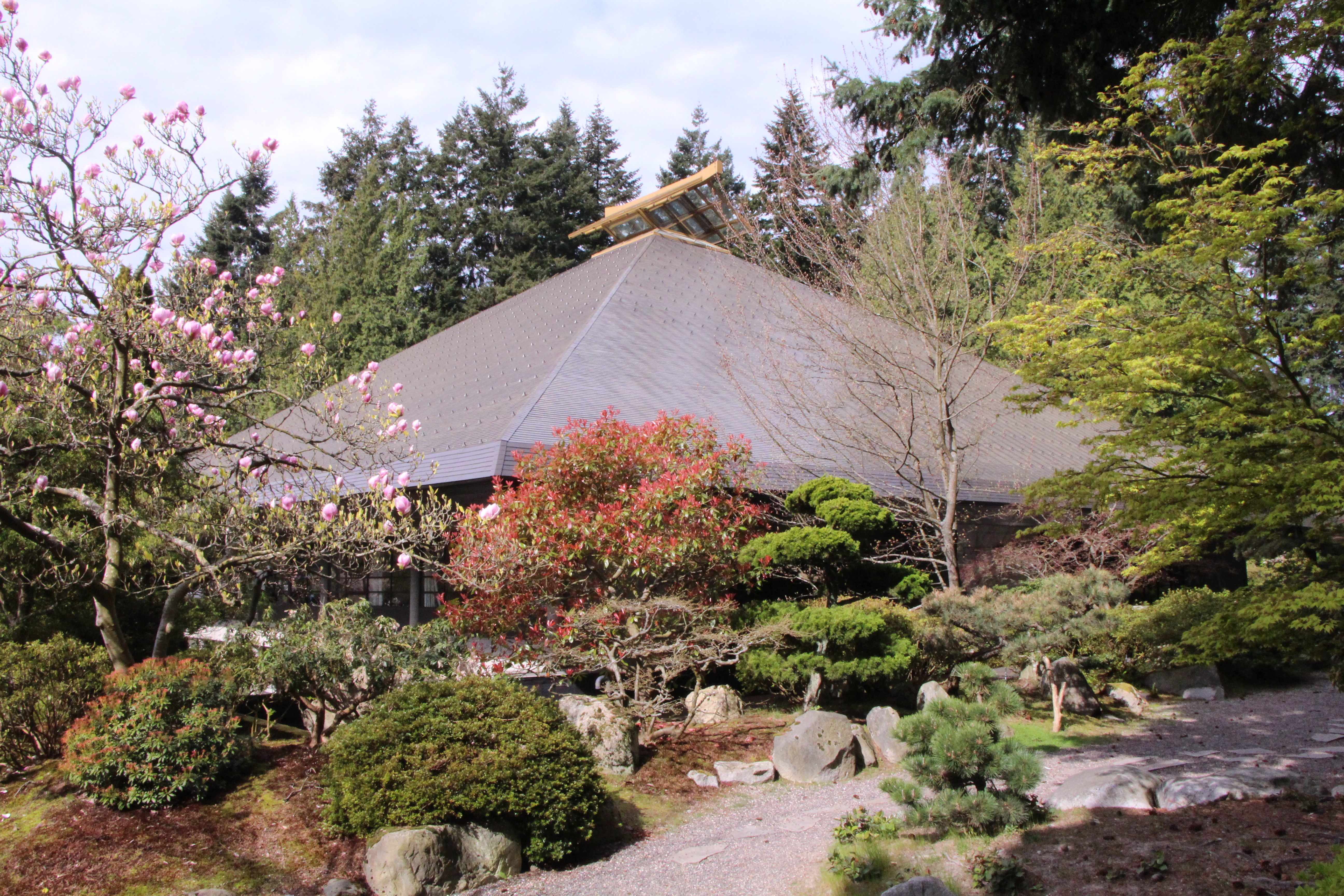 UBC Asian Centre, Northeast Corner, Spring 2014